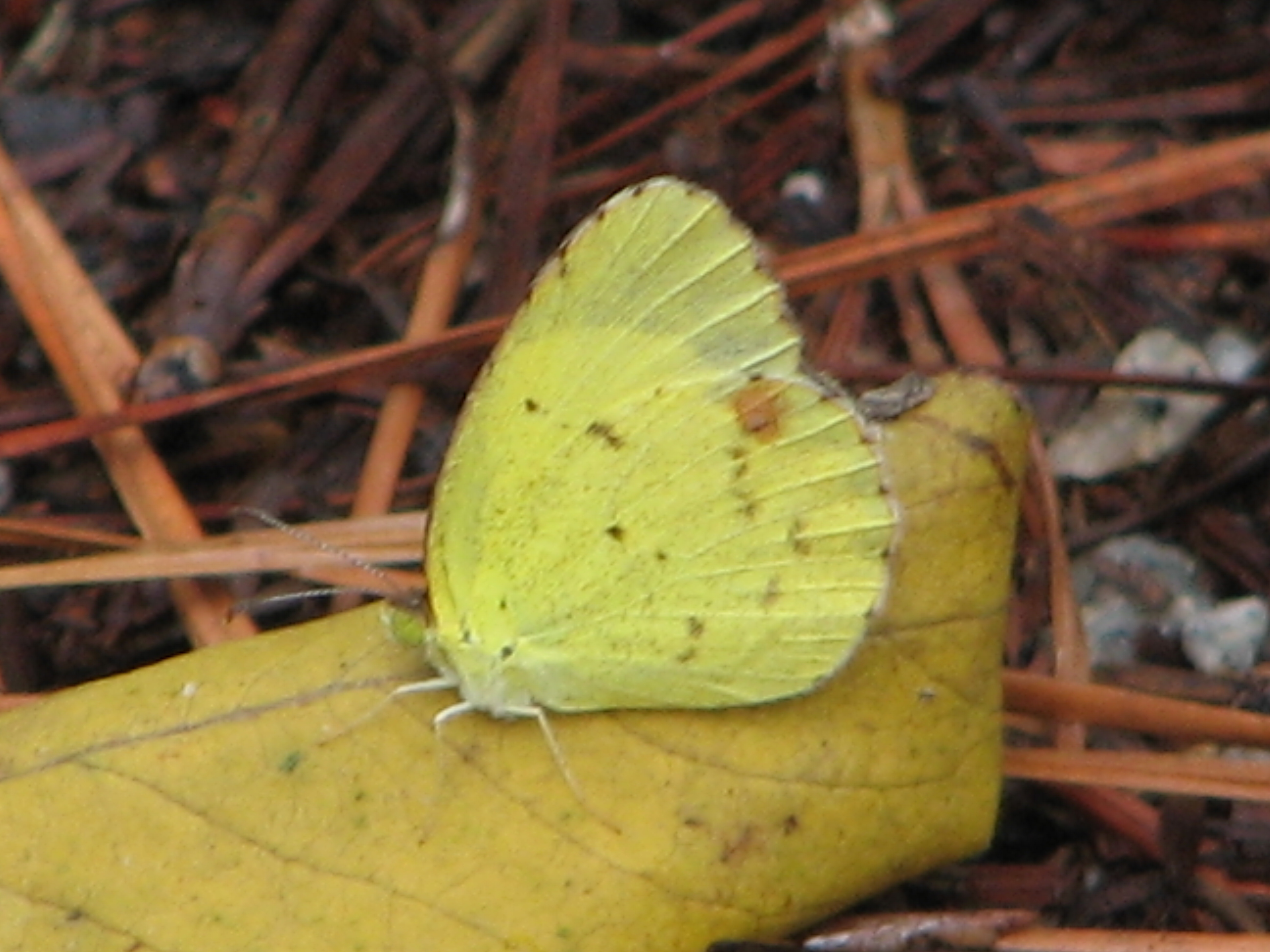 Eurema lisa at Congaree National Park, South Carolina, USA